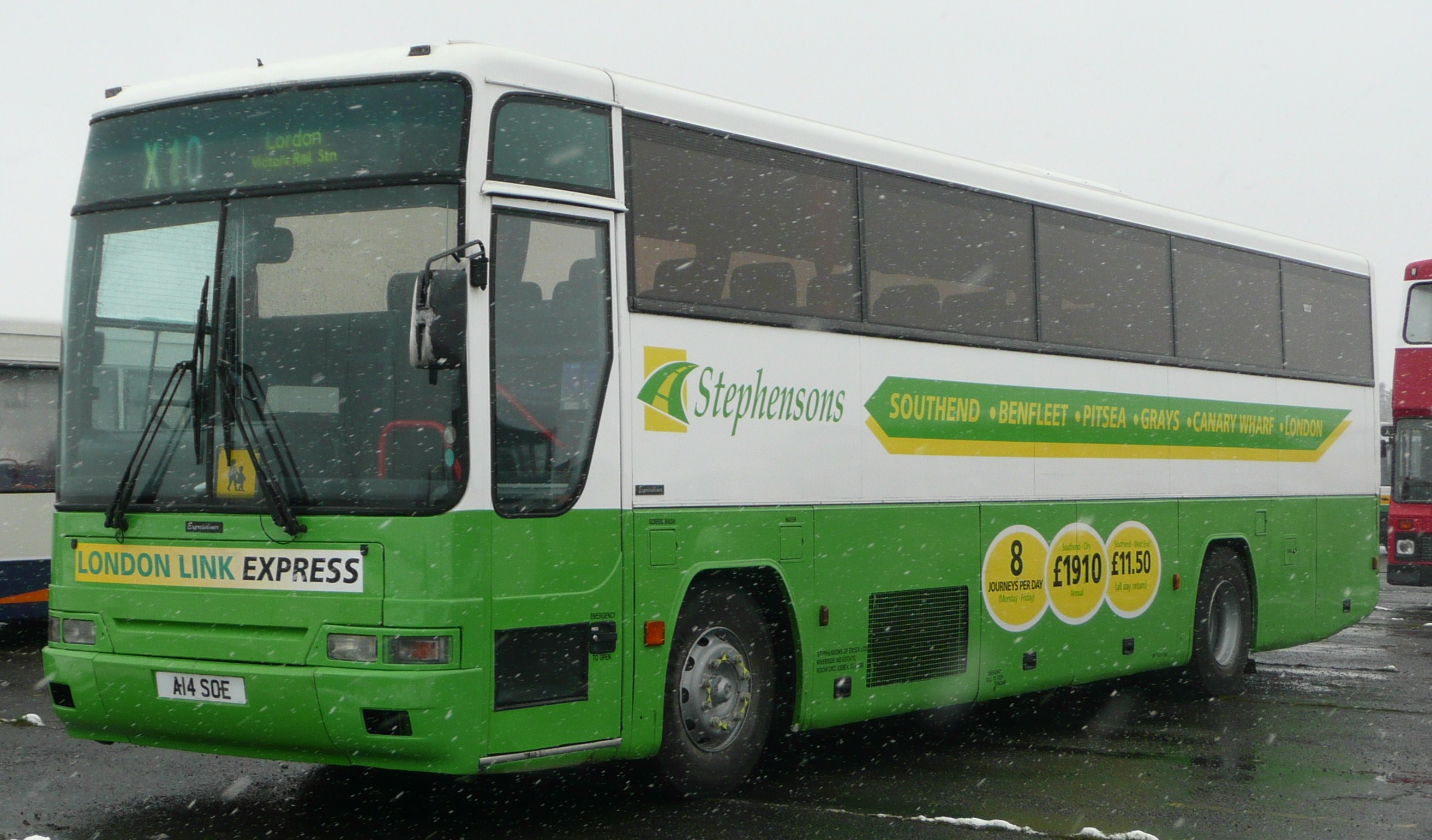 A Stephsons of Essex coach